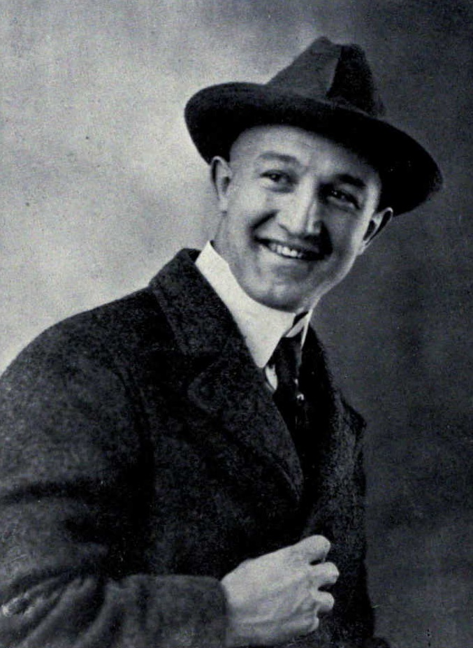 Oregon State Beavers football coach H. W. Hargiss